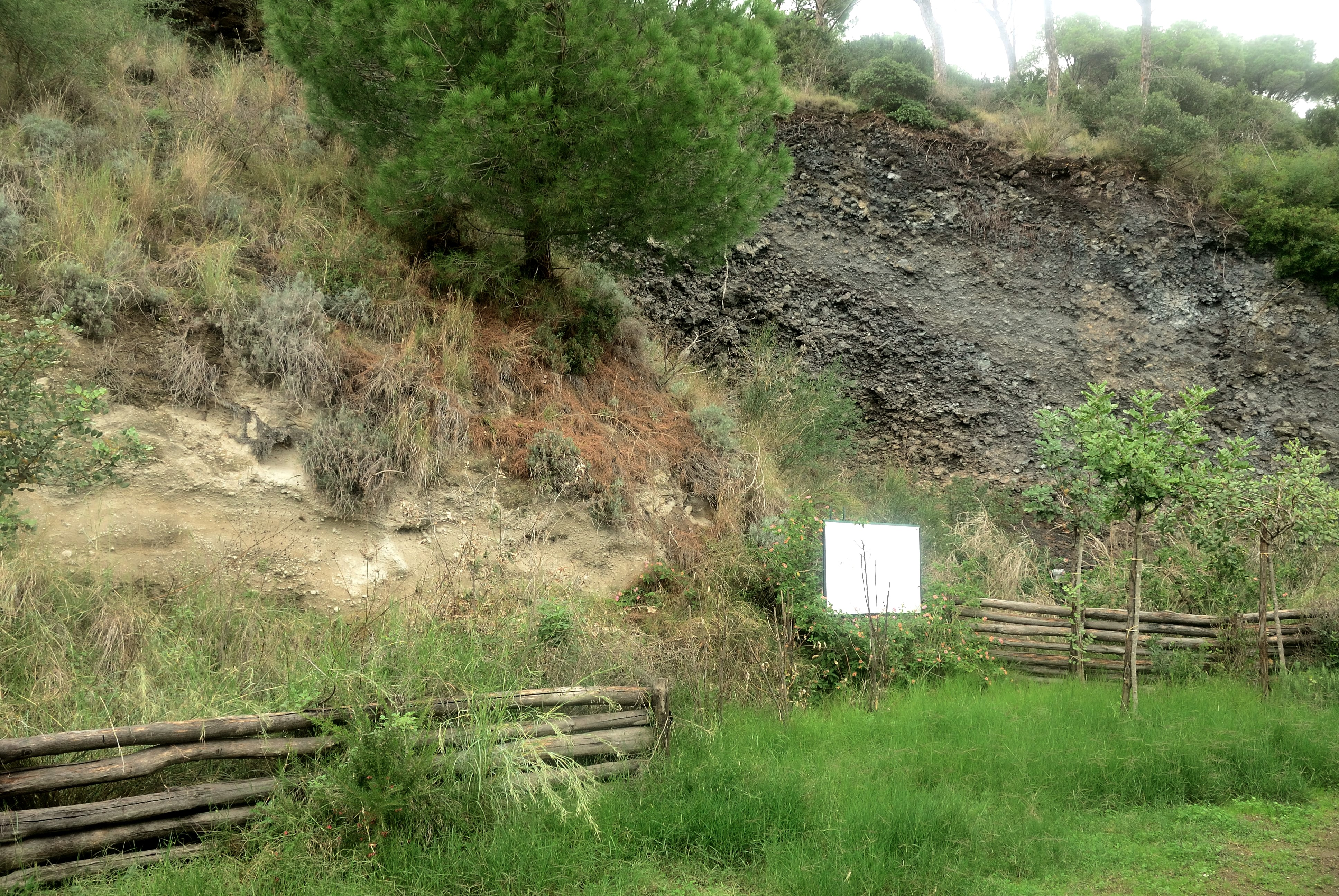 Field trip to Campi Flegrei